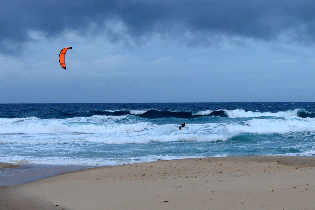 Winter in Australia - it does not stop you to go to the beach... to enjoy your favourite water sport. Location: Noosa, Sunshine beach :-)